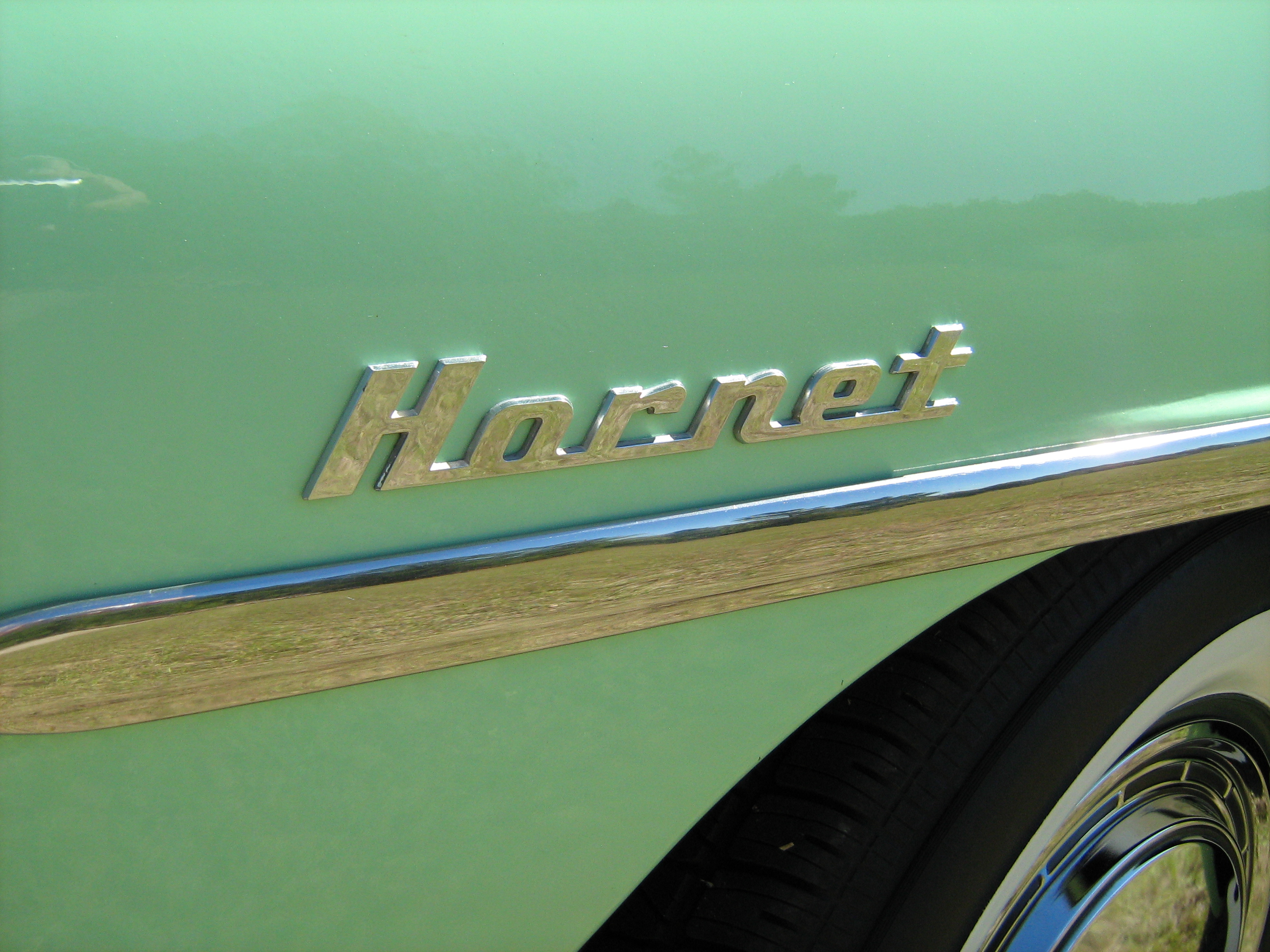 1954 Hudson Hornet fender emblem detail. A four-door "Step-Down" sedan finished in two-tone paint: light green with darker green roof. This car has the "Twin-H-Power" 308 cu in (5.0 L) straight-six engine producing 170 hp (127 kW). Picture taken at a local car show in North Carolina.